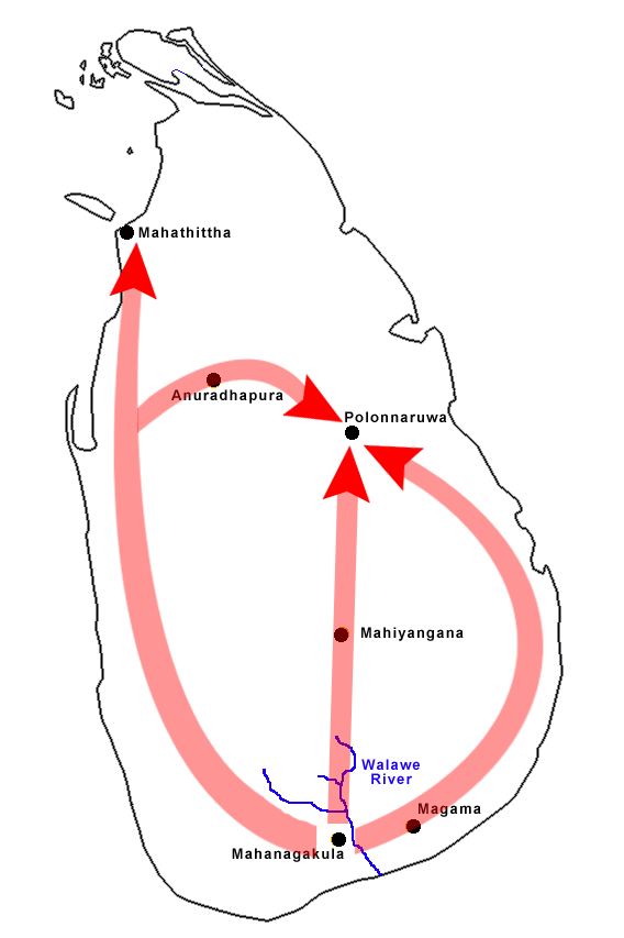 Map of Sri Lanka showing Vijayabahu I's troop movements to capture the capital Polonnaruwa. The city was attacked from 3 fronts.